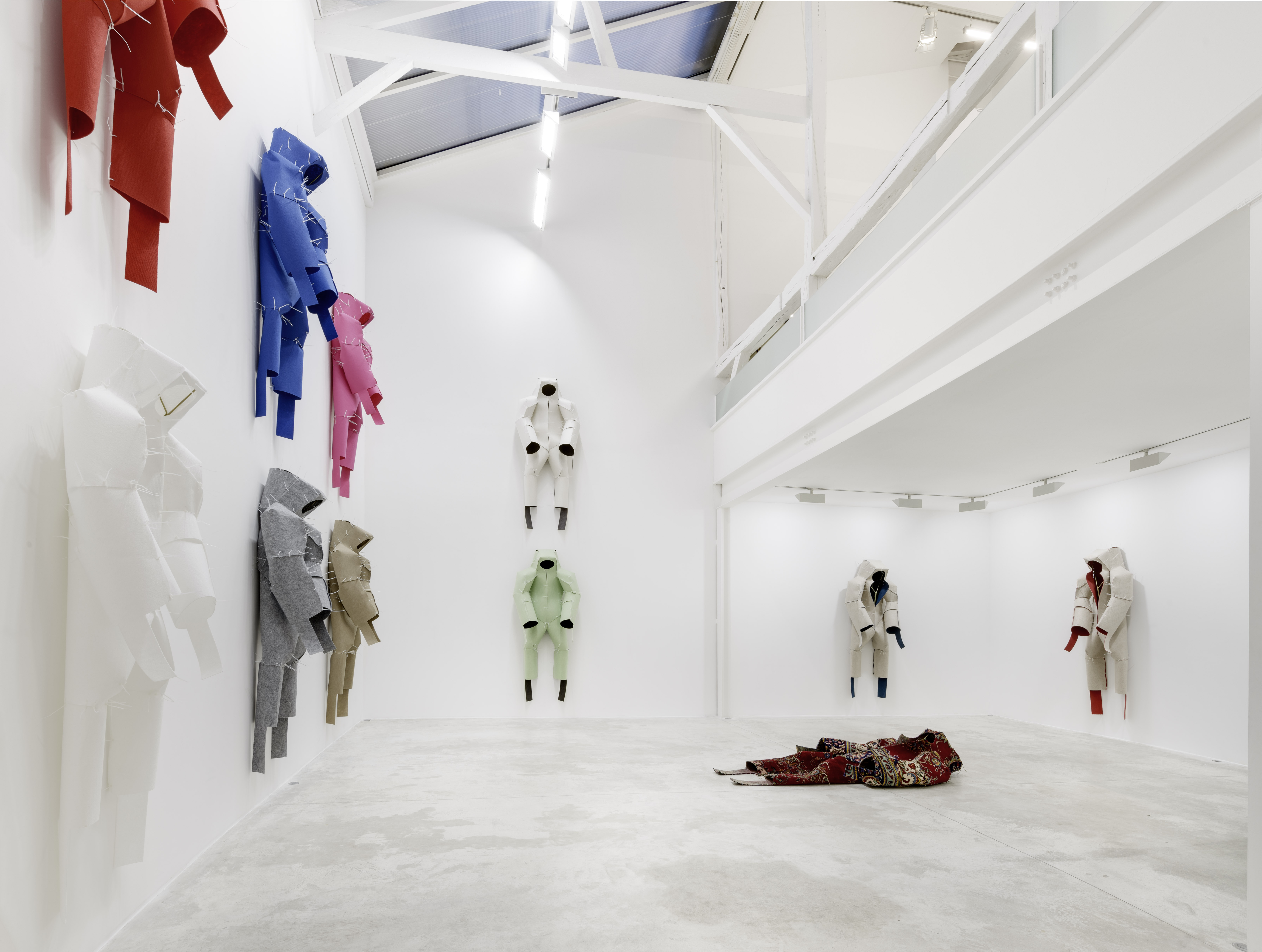 La galerie Michel Rein à Paris (Didier Faustino, We can't go home again, 2013, vue d’exposition (Florian Kleinefenn))